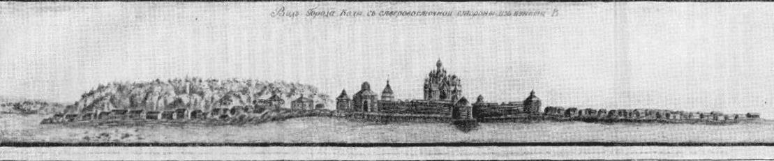 Kola stockade, end 18 century drawing